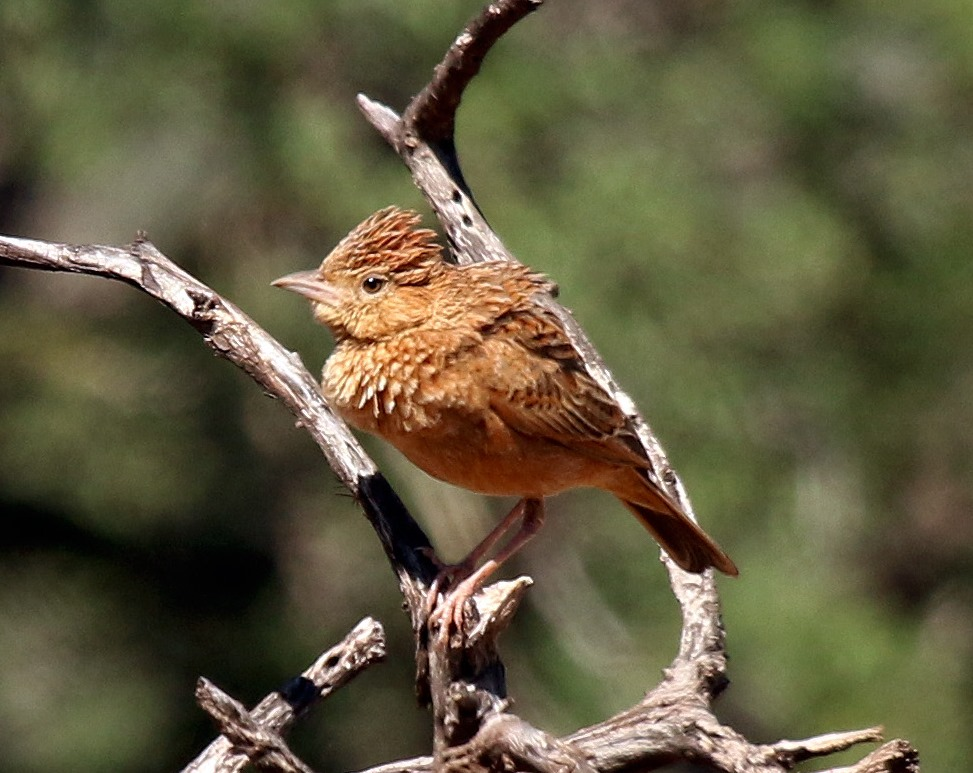 Eastern clapper lark at Tswalu Kalahari Reserve, South Africa